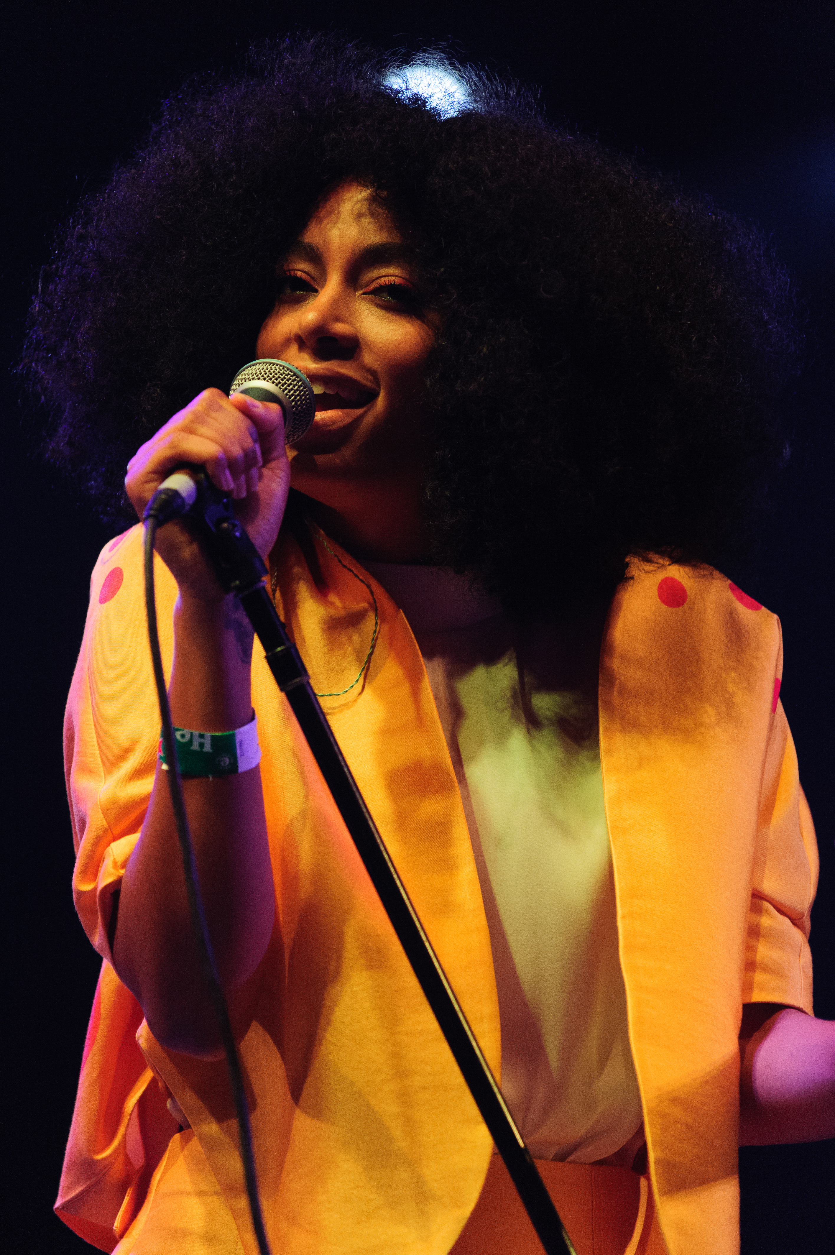 Solange performing at Coachella on April 19, 2014.